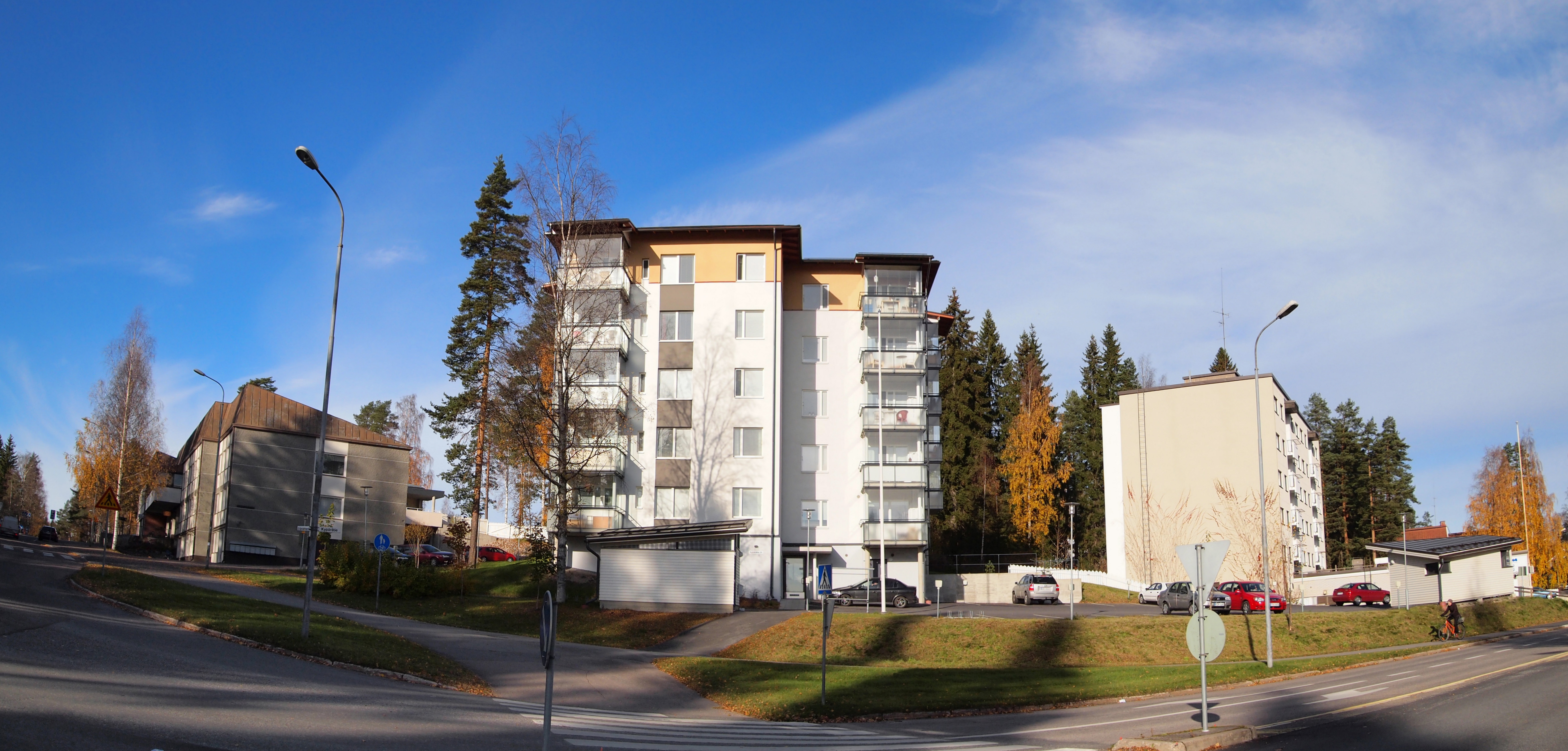 View on the corner of the street Kypärätie and Erämiehenkatu, Jyväskylä. This photograph was taken with an Olympus E-PL1